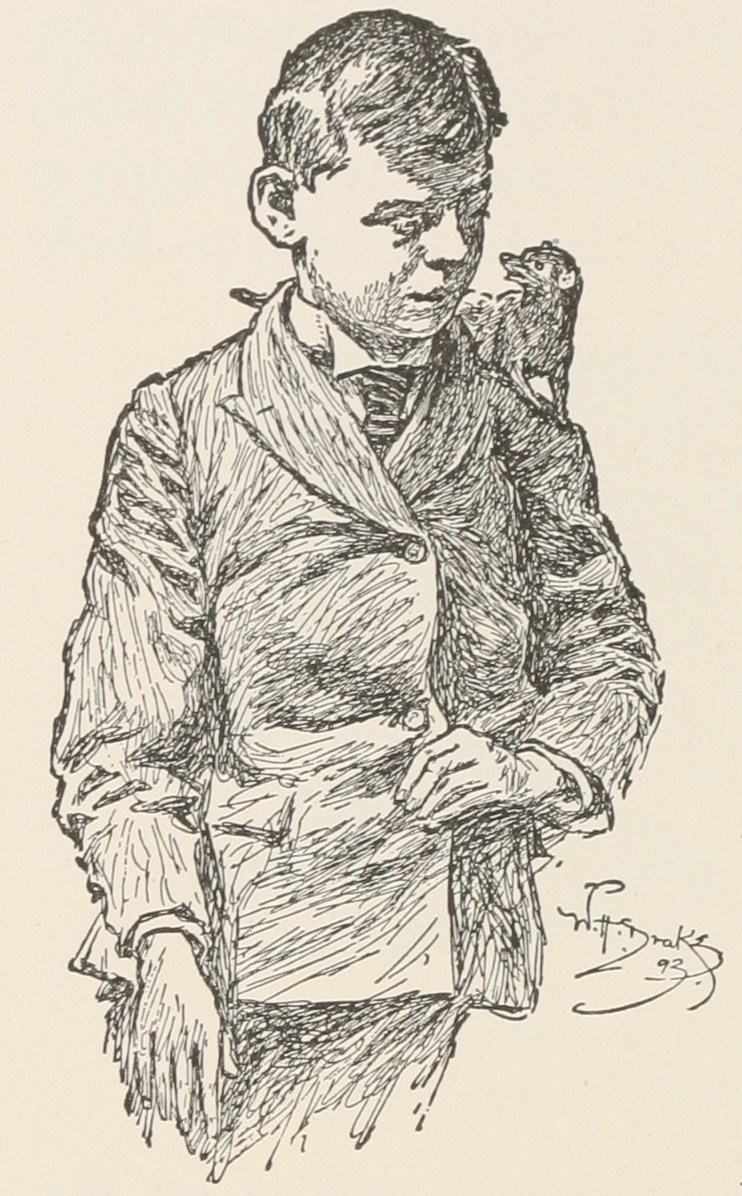 "He came to breakfast riding on Teddy's shoulder."